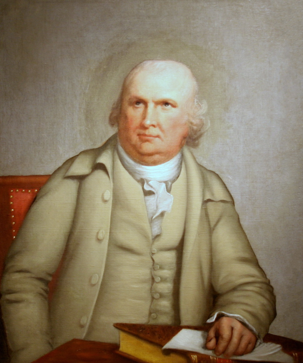 Oil on canvas painting of Robert Morris; size without frame 92.4×74.6 cm.